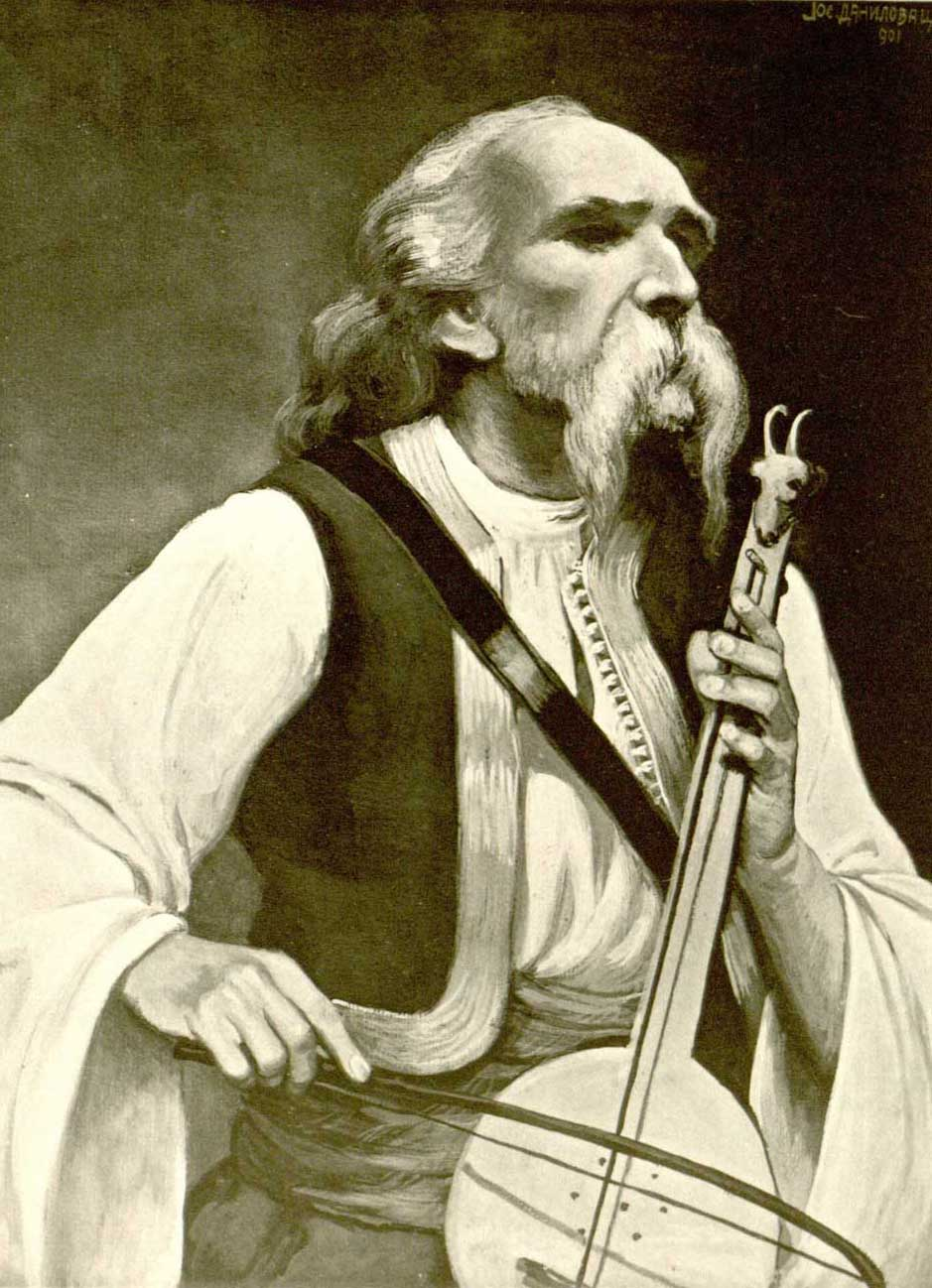 Illustration of Filip Višnjić, published in Знаменити Срби 19. века (1901).